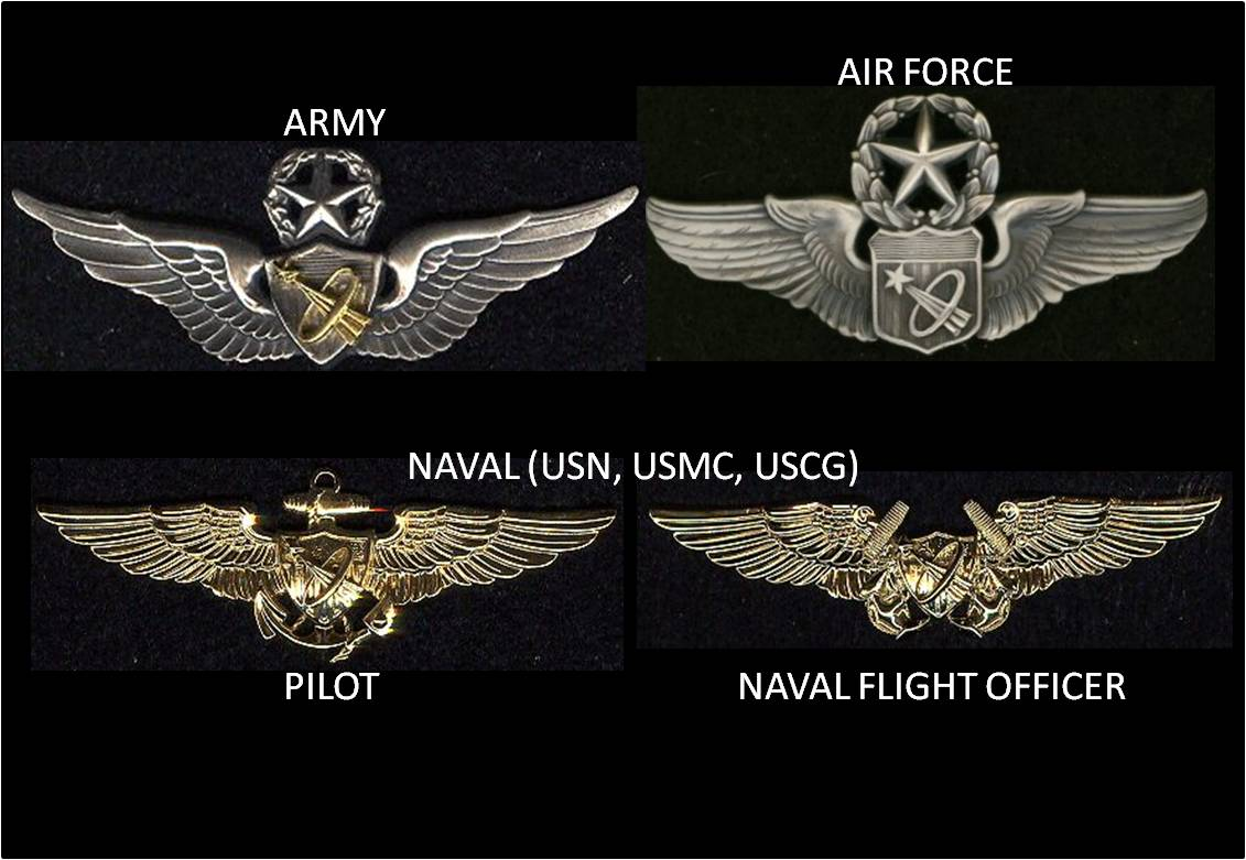 U.S. Military Astronaut Wings